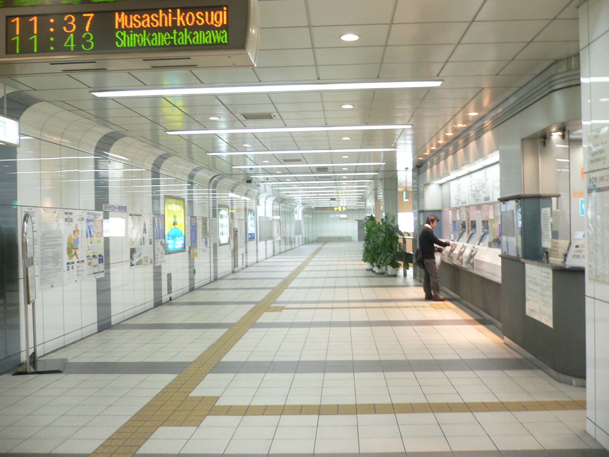 Shimo Staion (志茂駅), Kita W, Tokyo M.